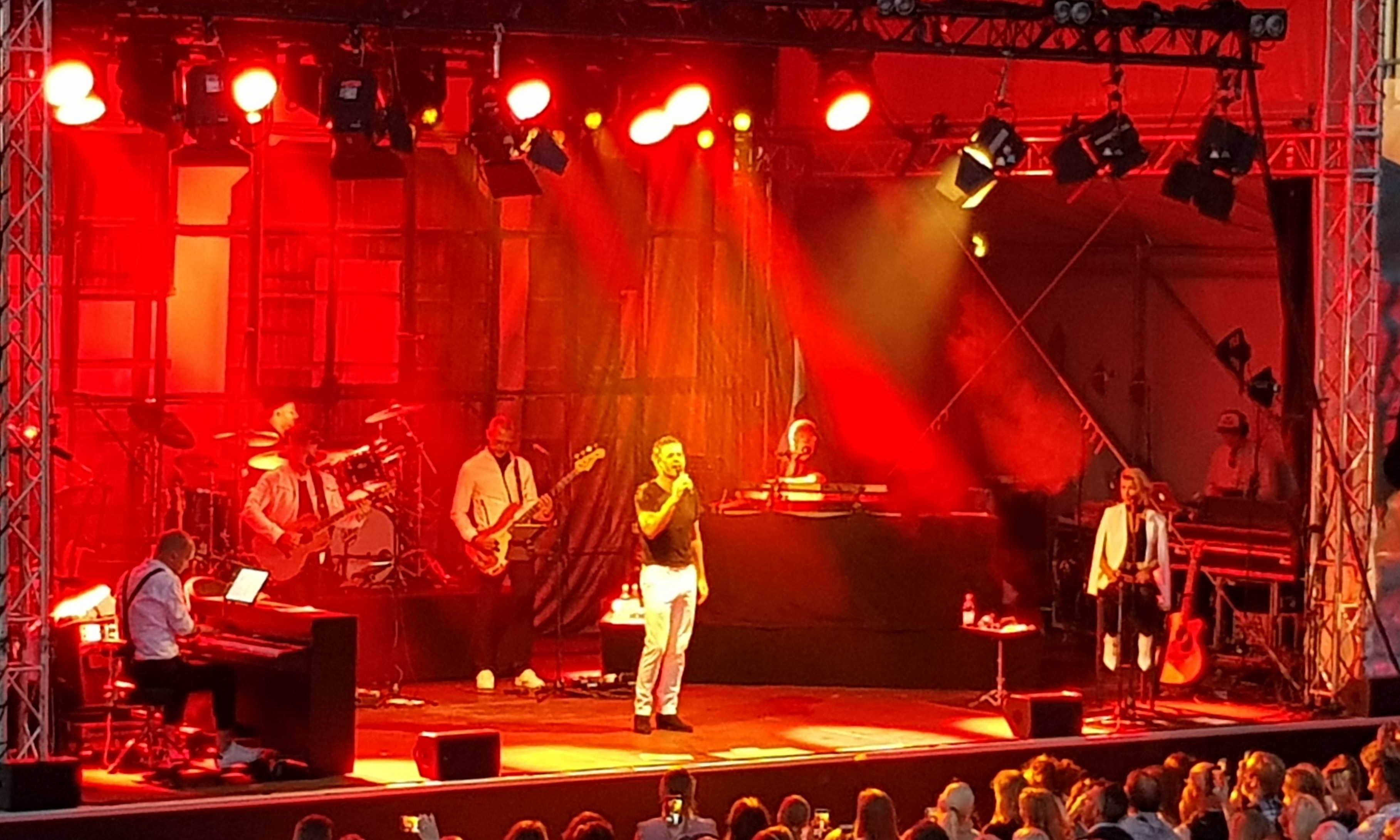 Peter Jöback performing with "Guldet blev till sand" at Solgården, Tylösand in Sweden together with Frida Öhrn.